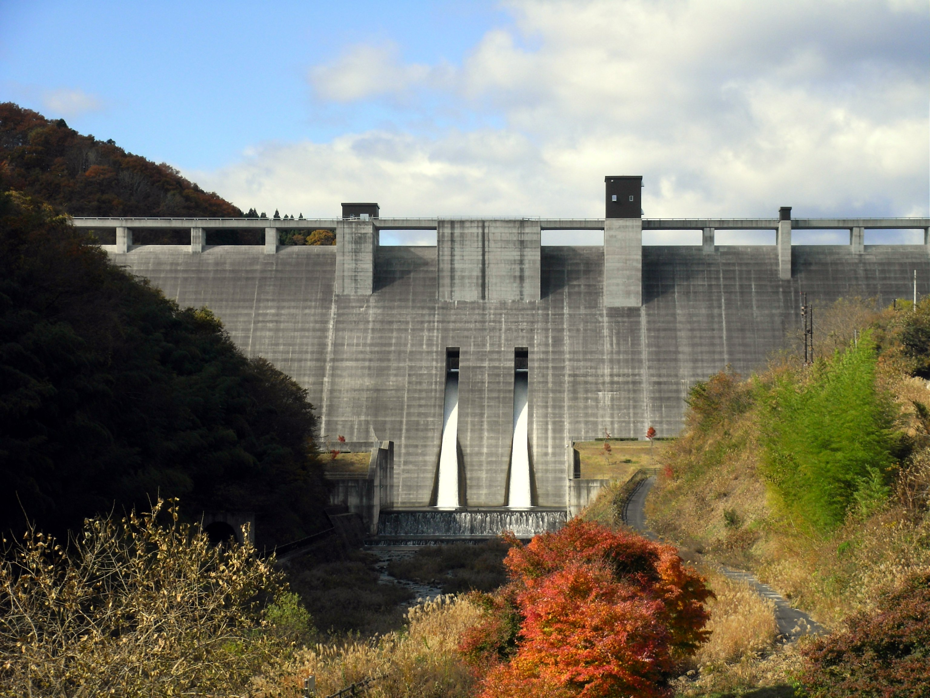 Koyama Dam(Okitagawa river/Ibaraki Pref./Japan)